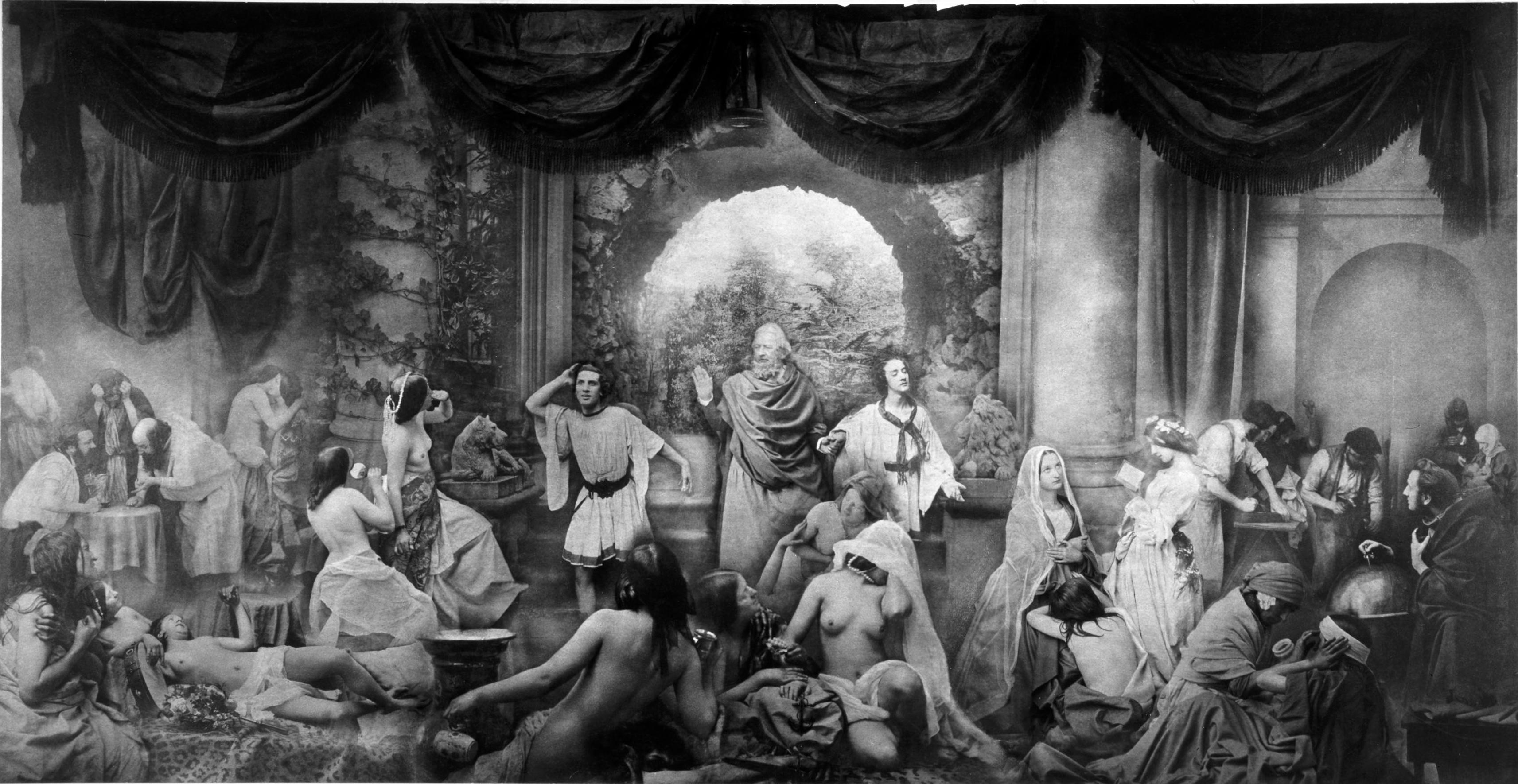 In 1857 he made his best-known allegorical work, The Two Ways of Life. This was a seamlessly montaged combination print made of thirty-two images in about six weeks. First exhibited at the Manchester Art Treasures Exhibition of 1857, the work shows two youths being offered guidance by a patriarch. Each youth looks toward a section of a stage-like tableaux vivant - one youth is shown the virtuous pleasures and the other the sinful pleasures.